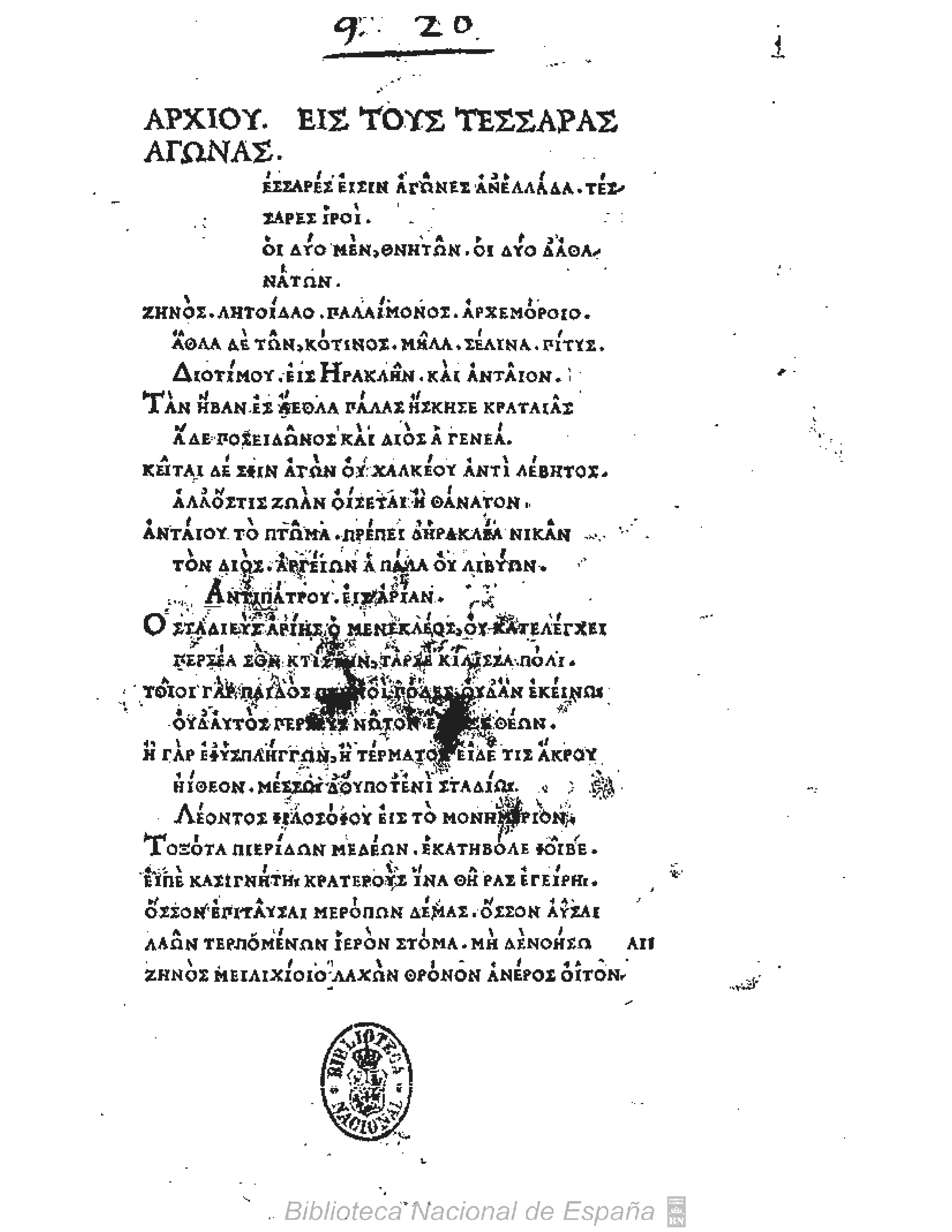 Page 2 of Anthologia Planudea, Ed. Janus Lascaris, 11 VIII 1494 From copy in Biblioteca Nacional de España